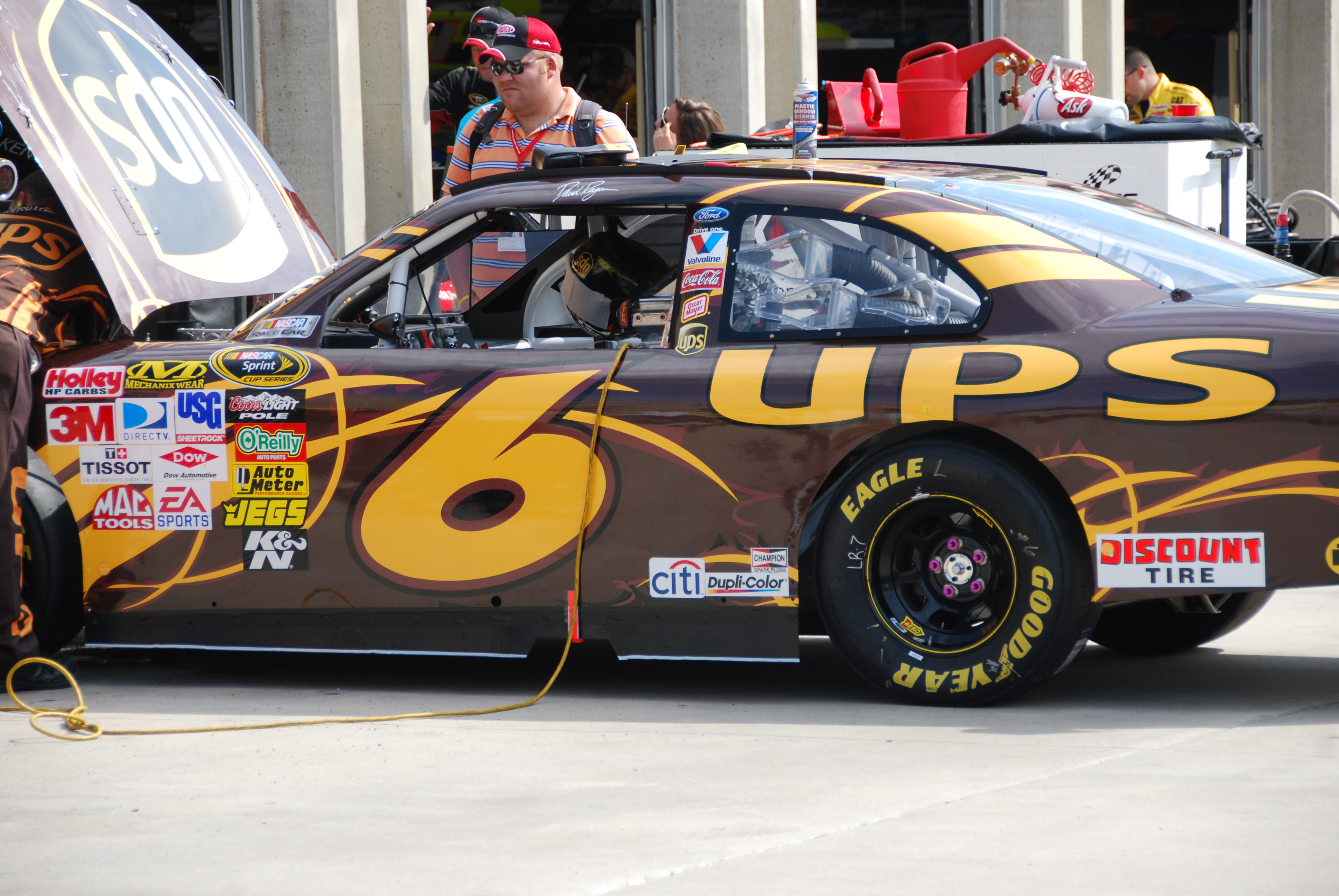 The number 6 Roush Fenway Racing Ford at Atlanta Motor Speedway for the 2009 Pep Boys Auto 500.